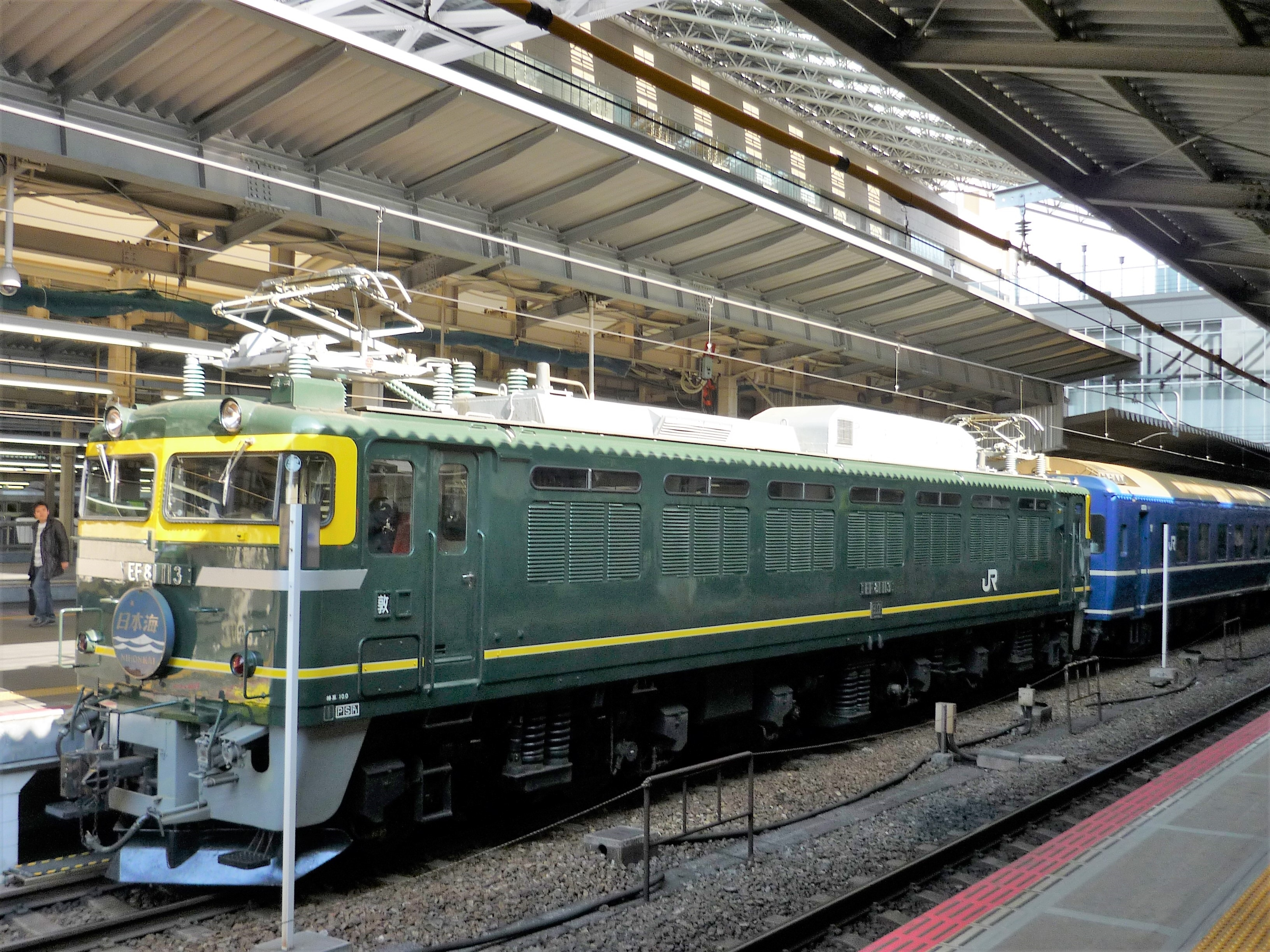 JR West Class EF81 electric locomotive EF81 113 (in Twilight Express livery) at Osaka Station on a Nihonkai sleeping car service